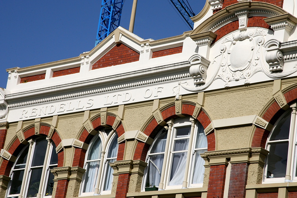 A detail from the facade of the former Rendells department store, designed by William Alfred Holman, at 184 Karangahape Road, Auckland, New Zealand